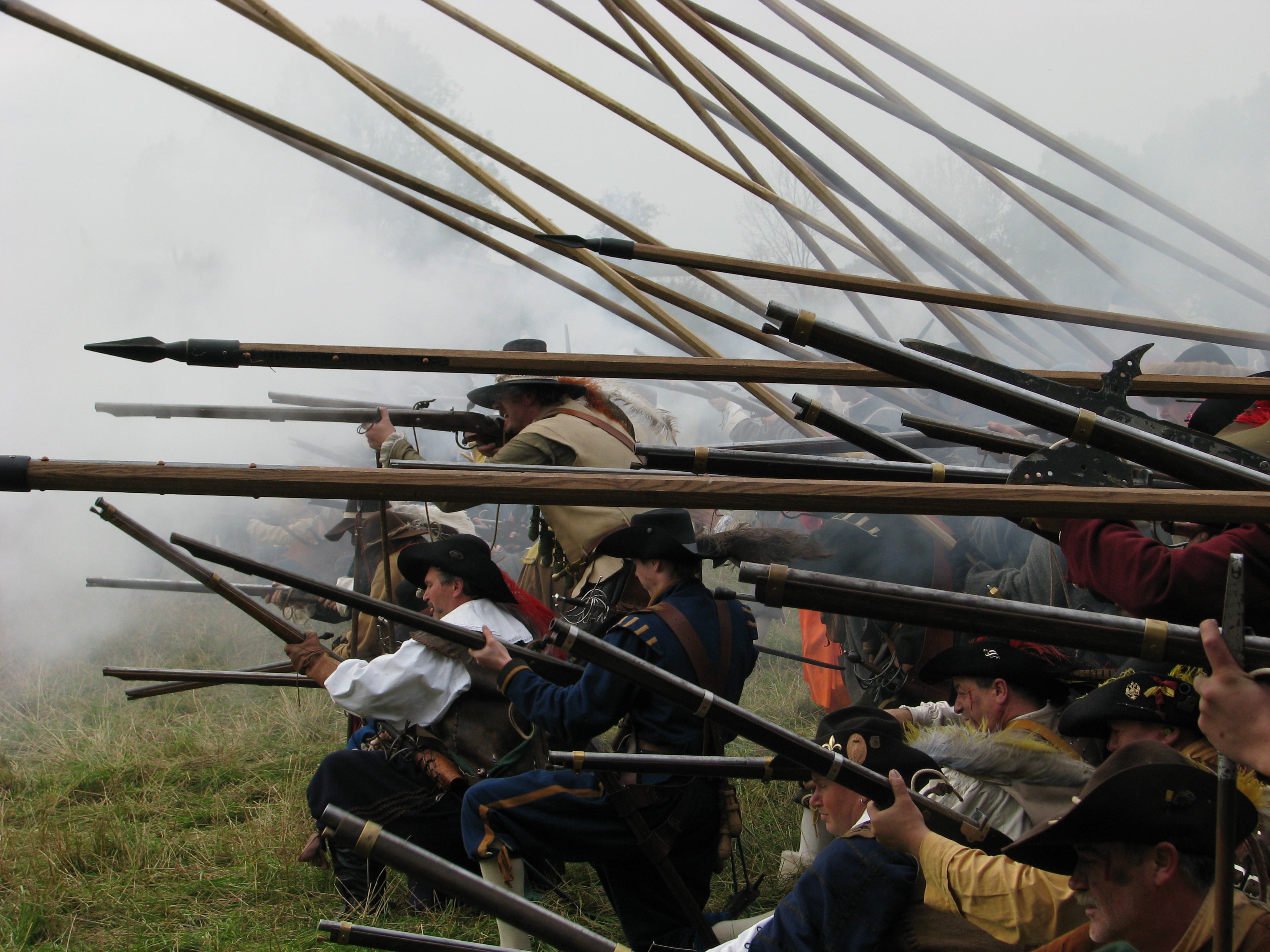 Slag om Grolle 2008 (reenactment of the Siege of Groenlo of 1627): Dutch musketeers and pikemen in formation.